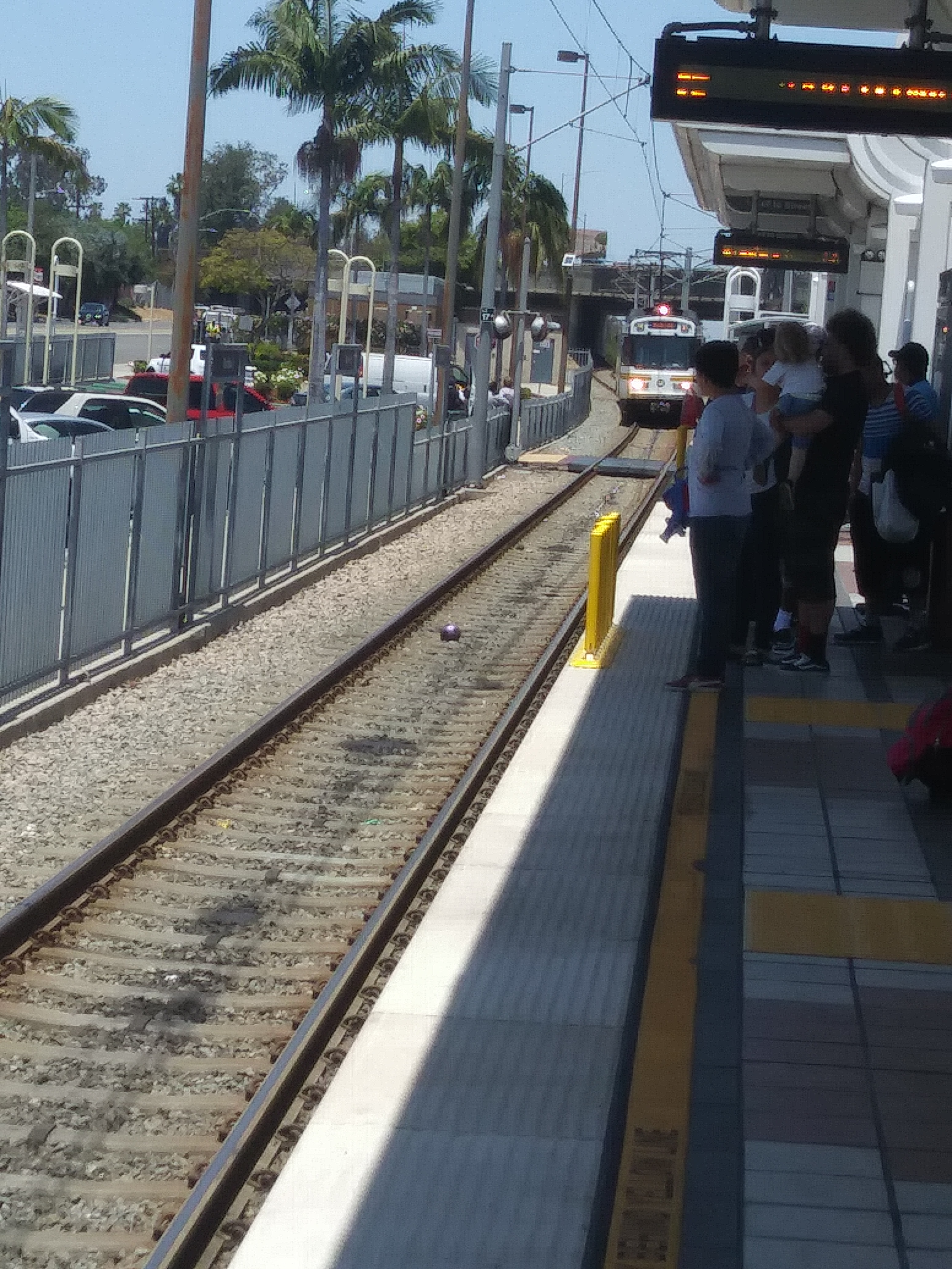 Blue Wardlow Station